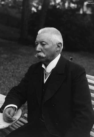 Norwegian baryton singer, conductor, composer and biographer Thorvald Lammers.